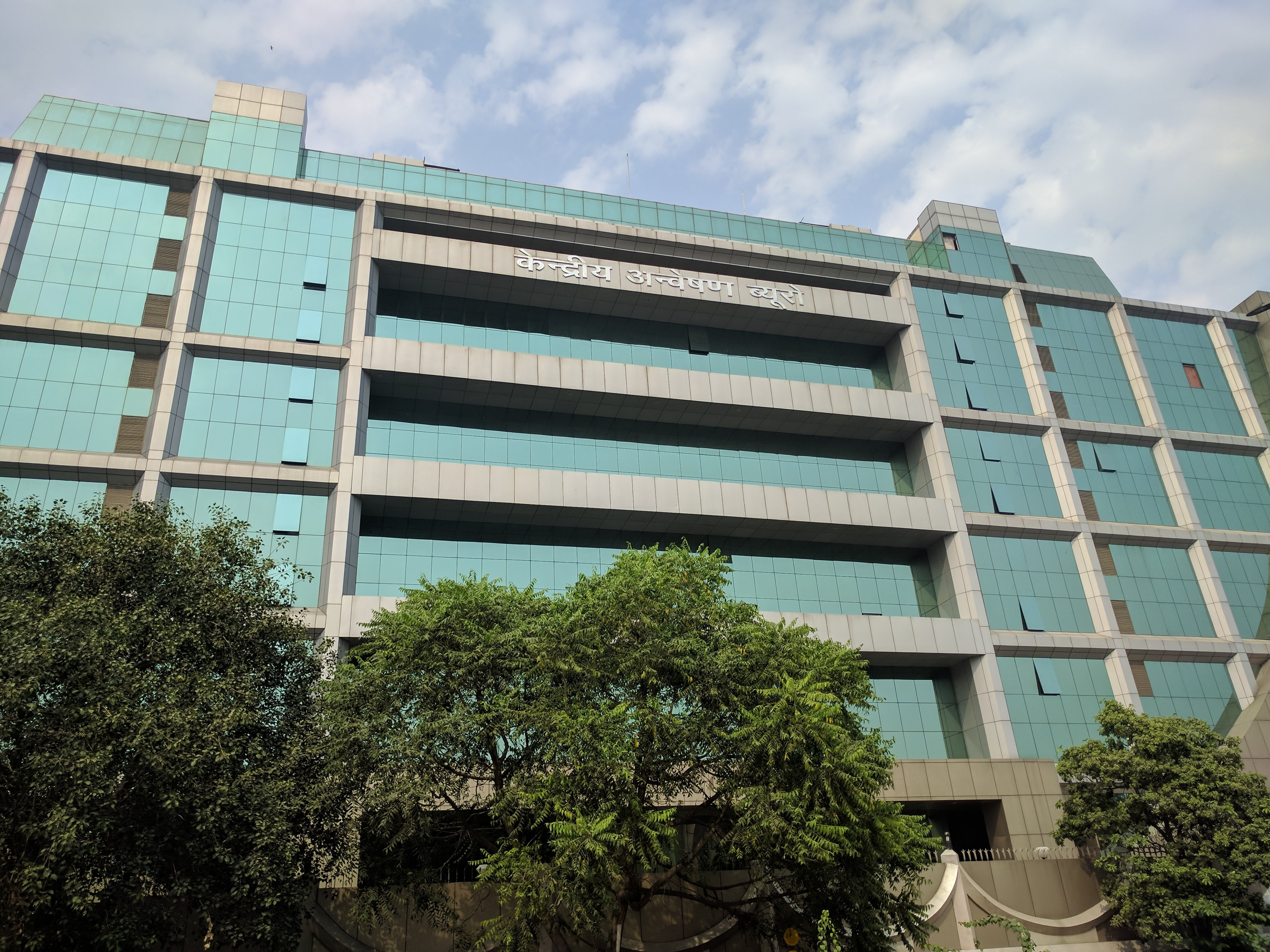 Central Bureau of Investigation headquarters New Delhi